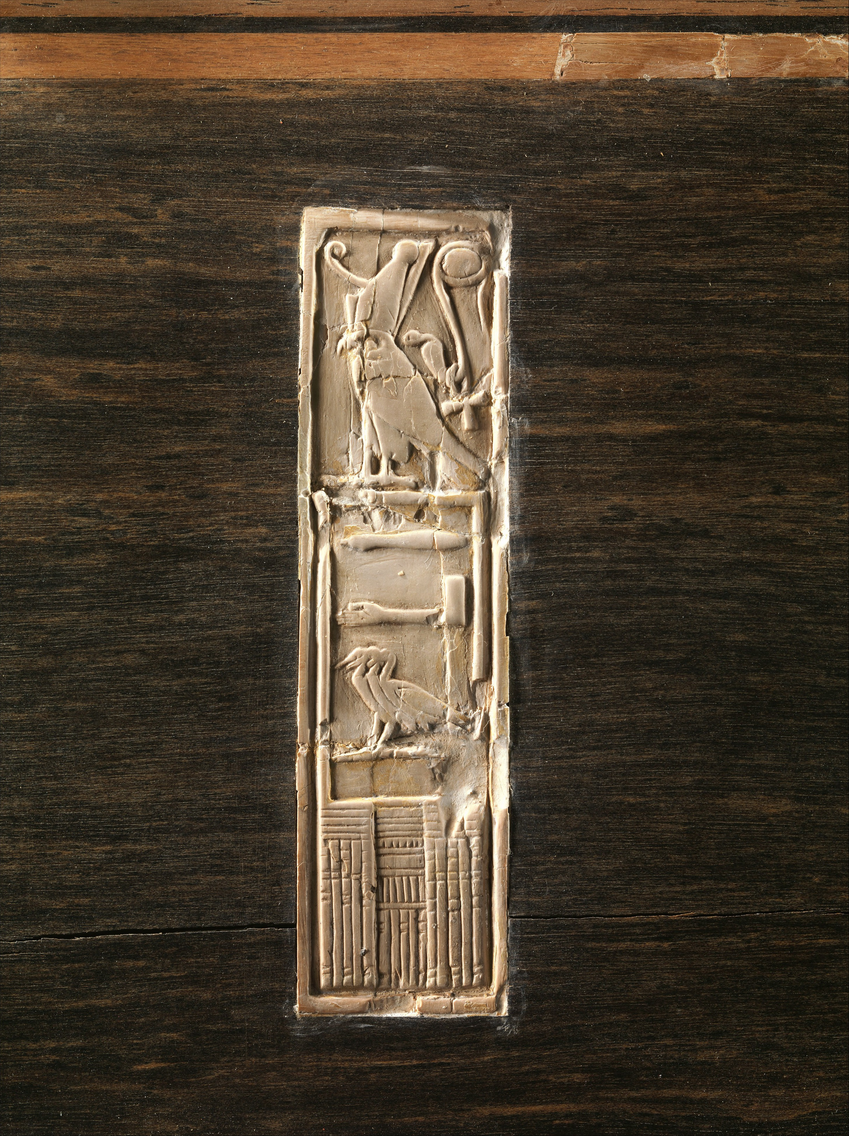 Box, Sithathoryunet